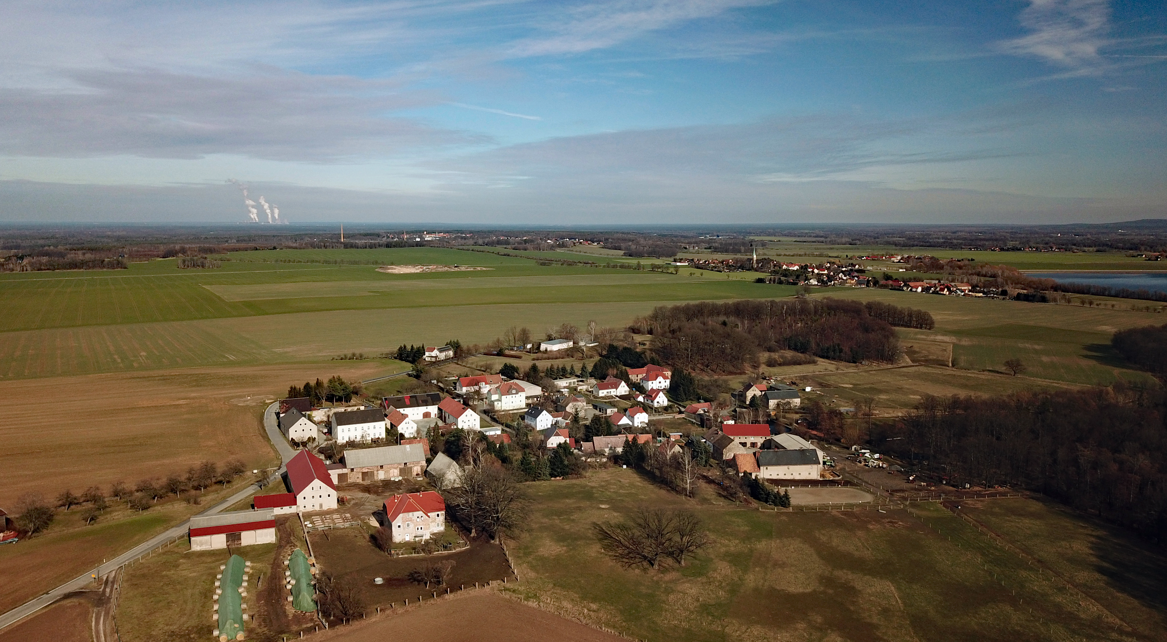 Kronförstchen, Großdubrau, Saxony, Germany Hornjoserbsce: Powětrowy wobraz Křiweje Boršće